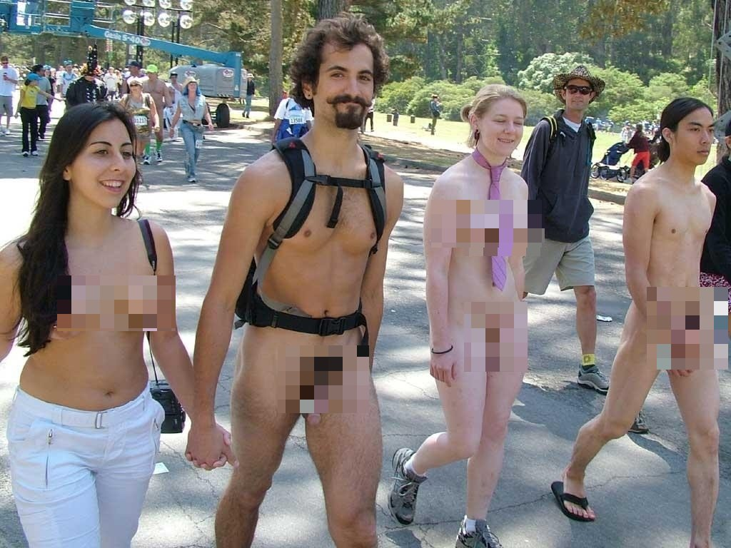 San Francisco Street Parade